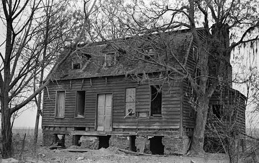 Hanover House in Berkeley County, South Carolina prior to its move to Clemson University (cropped)